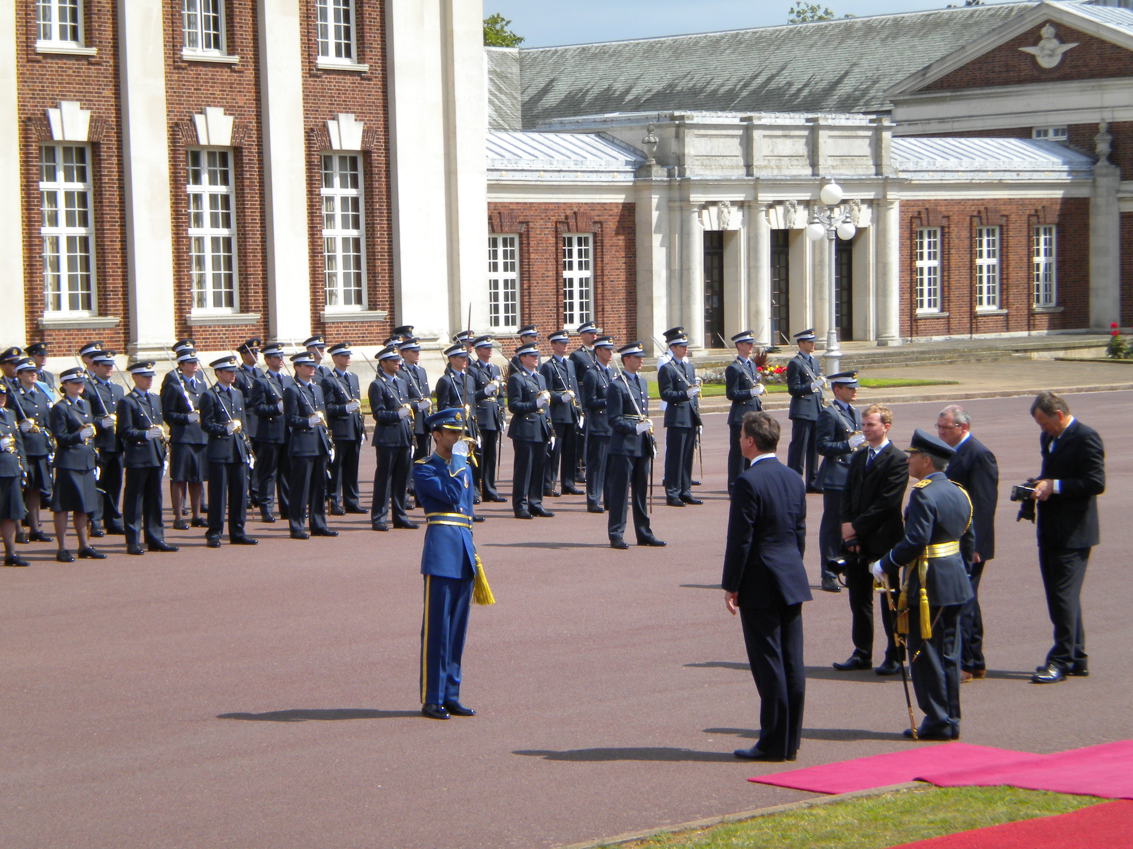 In front of College Hall at Cranwell, Lincolnshire, England. An officer from Oman salutes David Cameron with the International Sword of Honour for 2010 which the Prime Minister has just presented.